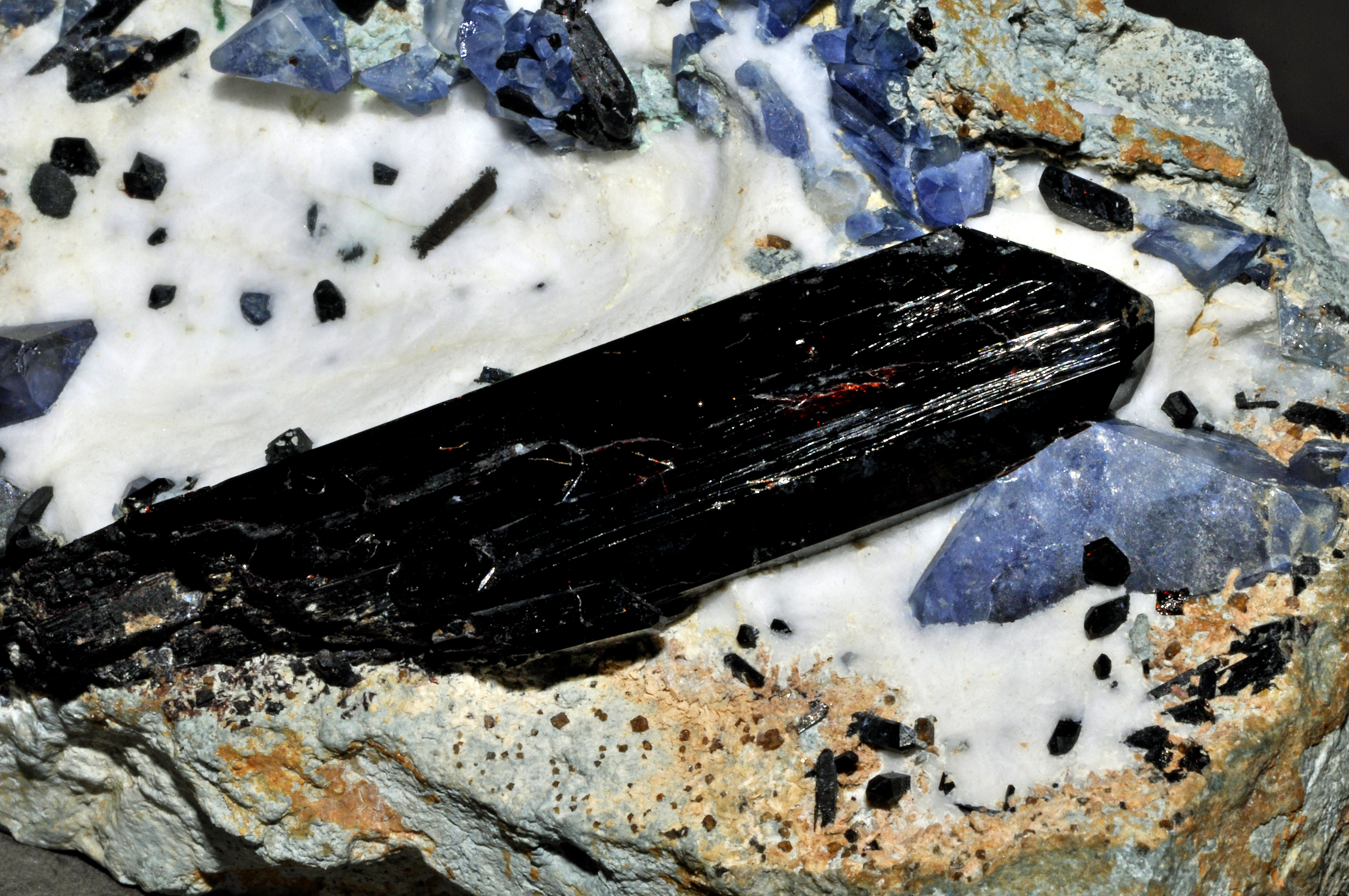 benitoïte, neptunite, joaquinite-(Ce), natrolite : Dallas Gem Mine (Benitoite Mine ; Benitoite Gem Mine ; Gem Mine), Dallas Gem Mine area, San Benito River headwaters area, New Idria District, Diablo Range, San Benito Co., California, USA - benitoïte : 15,5 mm, neptunite : 43 mm